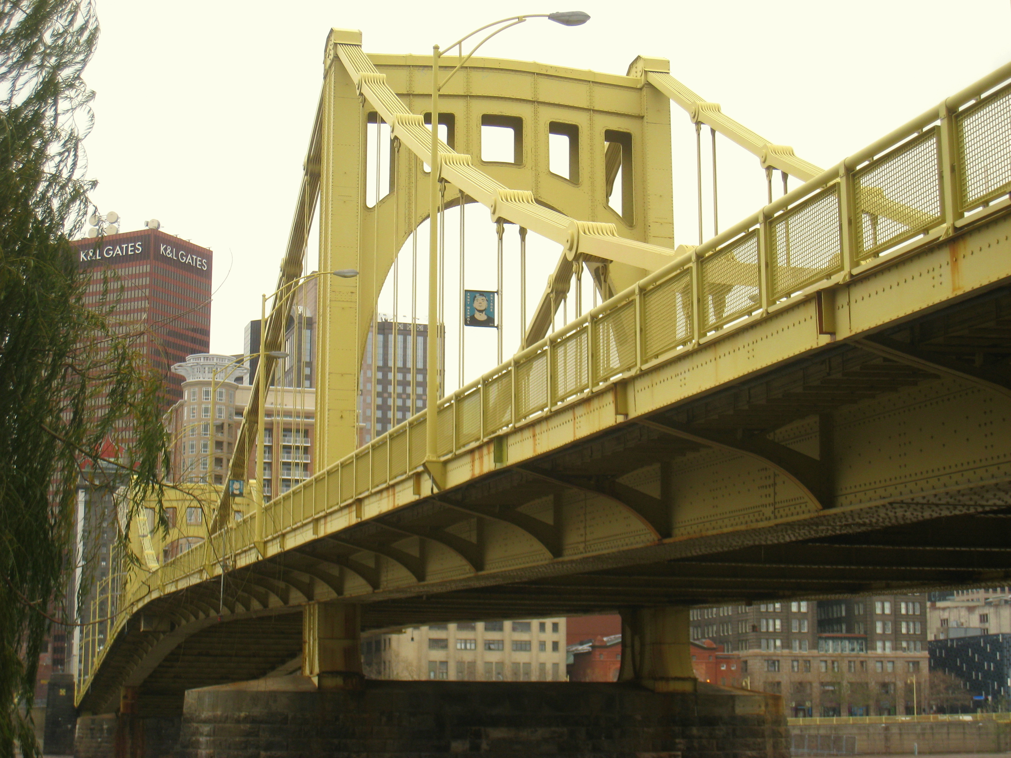 Seventh Street Bridge (aka Andy Warhol Bridge) in Pittsburgh, Pennsylvania, USA.